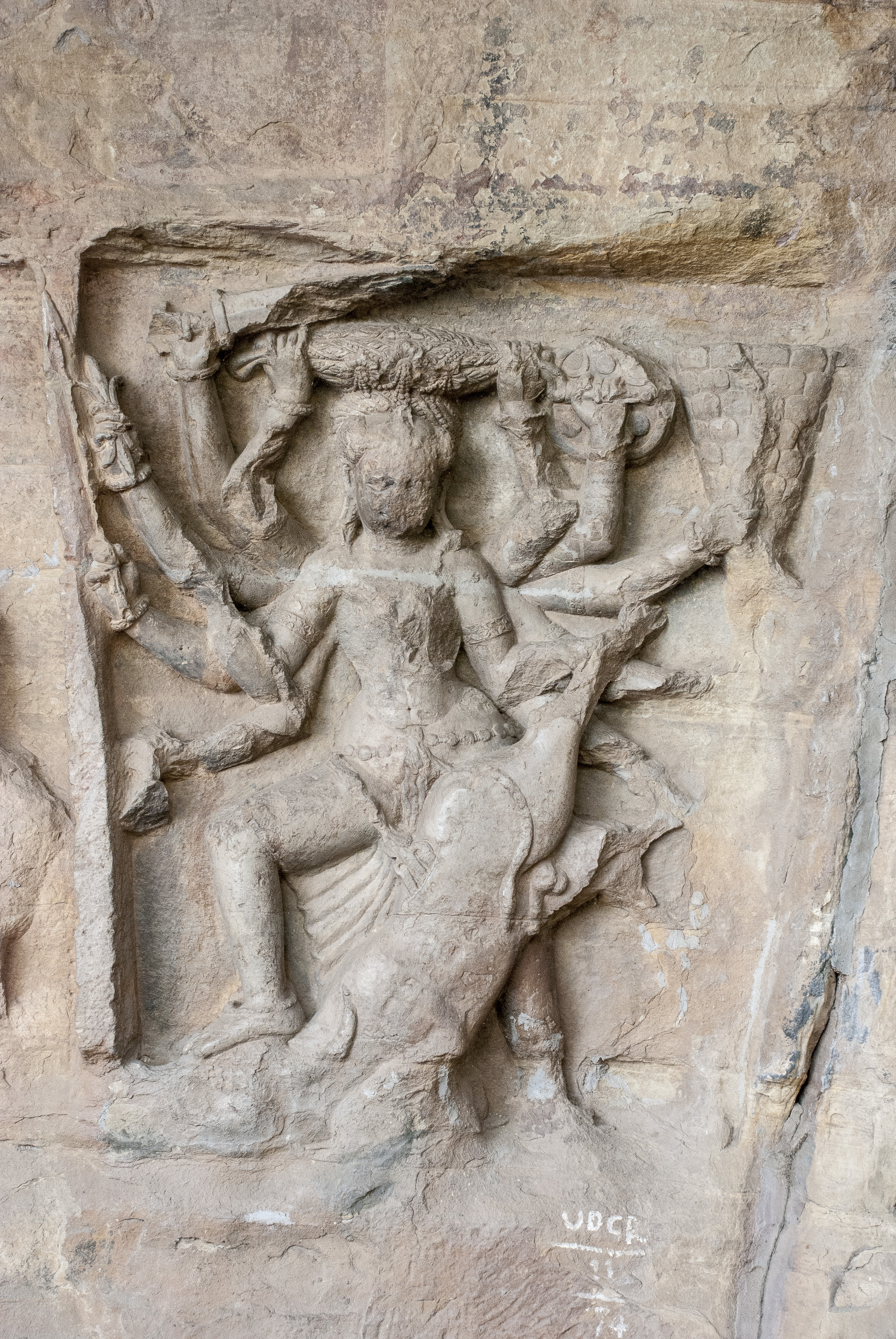 Detail on Udaigiri Cave 6